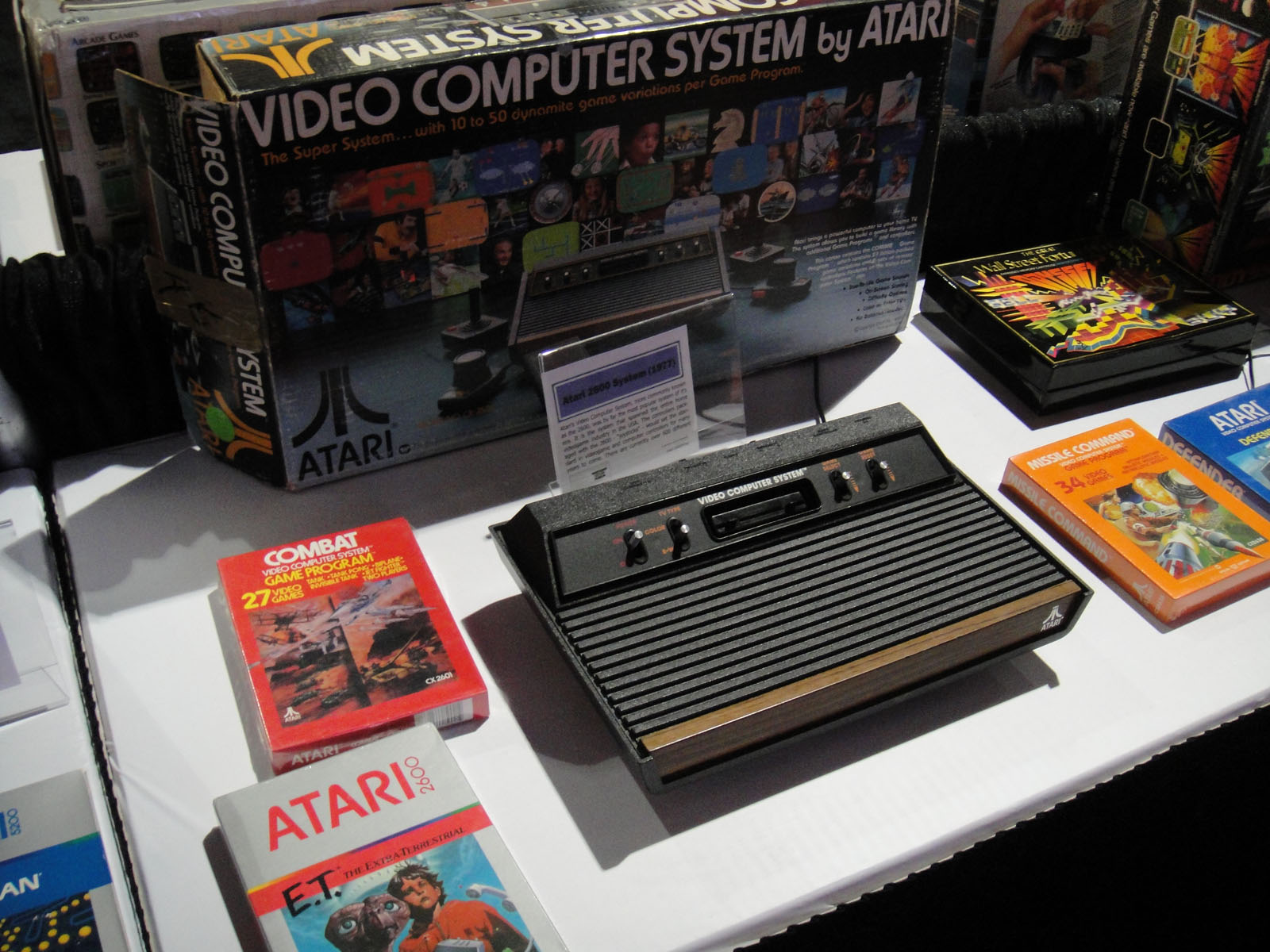 photo 2011 taken by Doug Kline If you're interested in higher resolution versions of my images, contact me via my profile page.